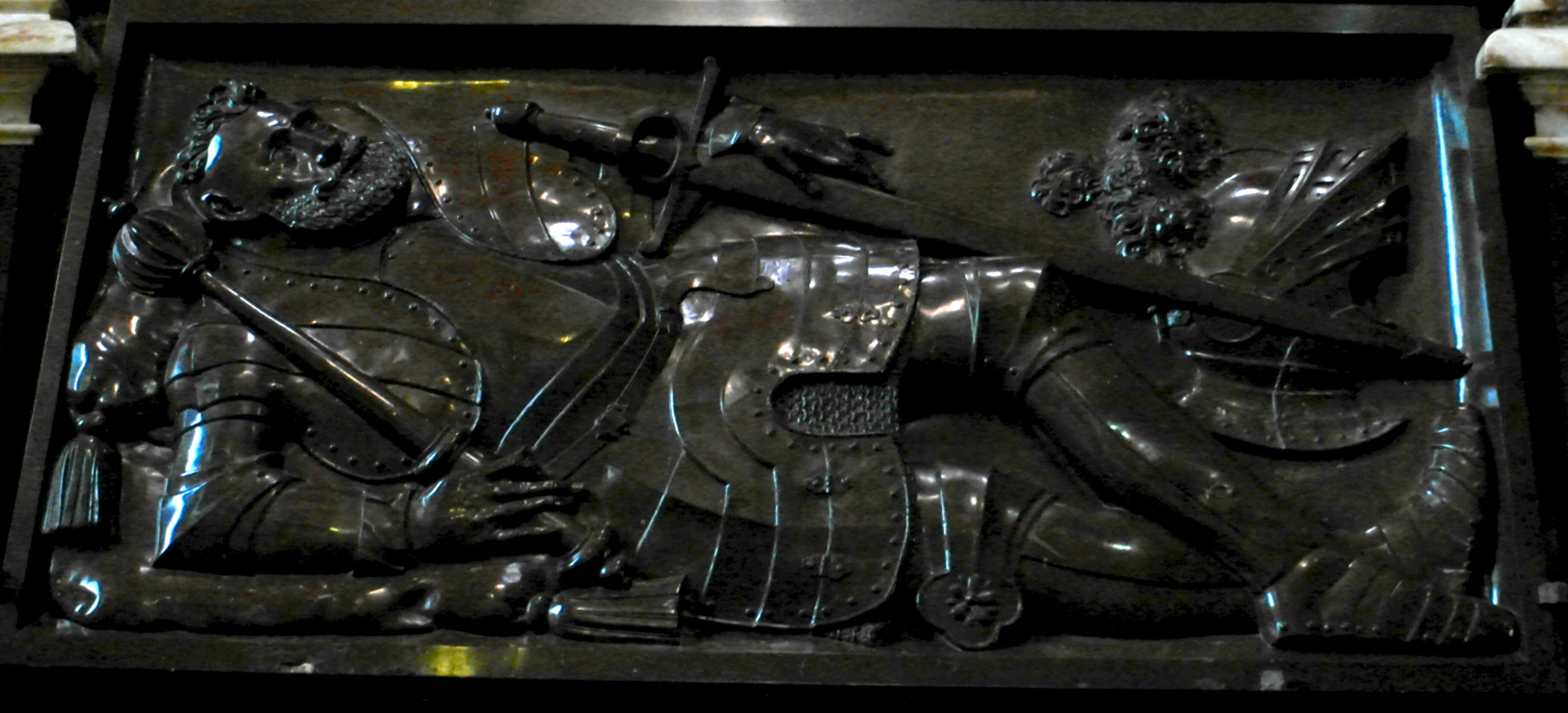 Tomb effigy of Mikołaj Oleśnicki in the Holy Cross Monastery, Poland